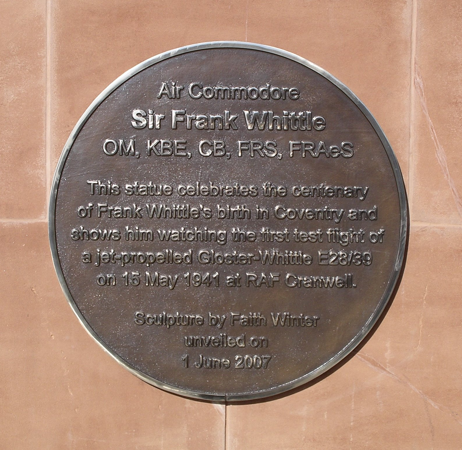 photo of the plaque on the plinth of a statue of Sir Frank Whittle in Coventry, England. The statue was unvieled on 1 June 2007.